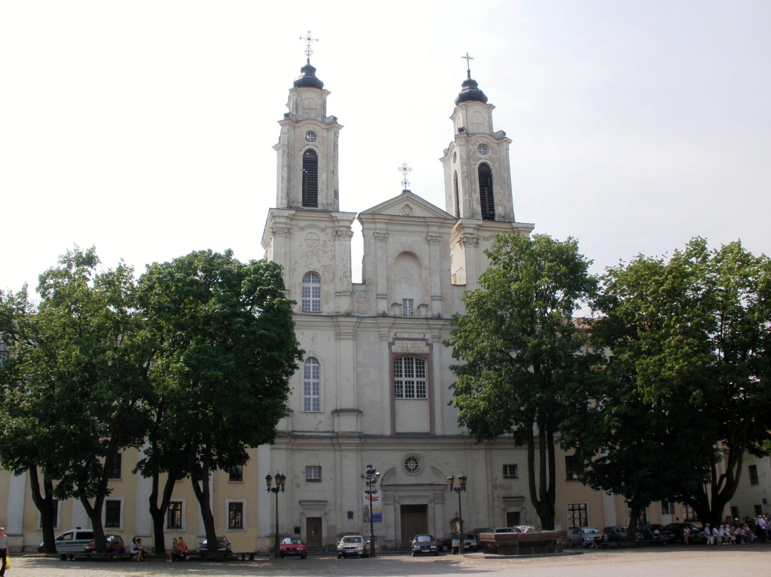 One of the main churches of Kaunas, Lithuania.